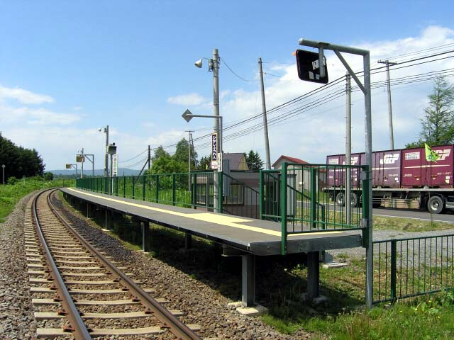 Higashi-Furen Station